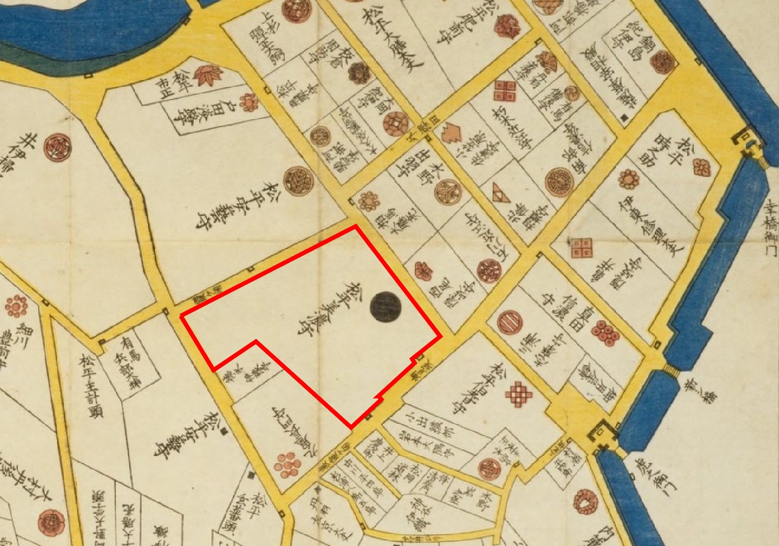 Residence of Kuroda clan at Edo